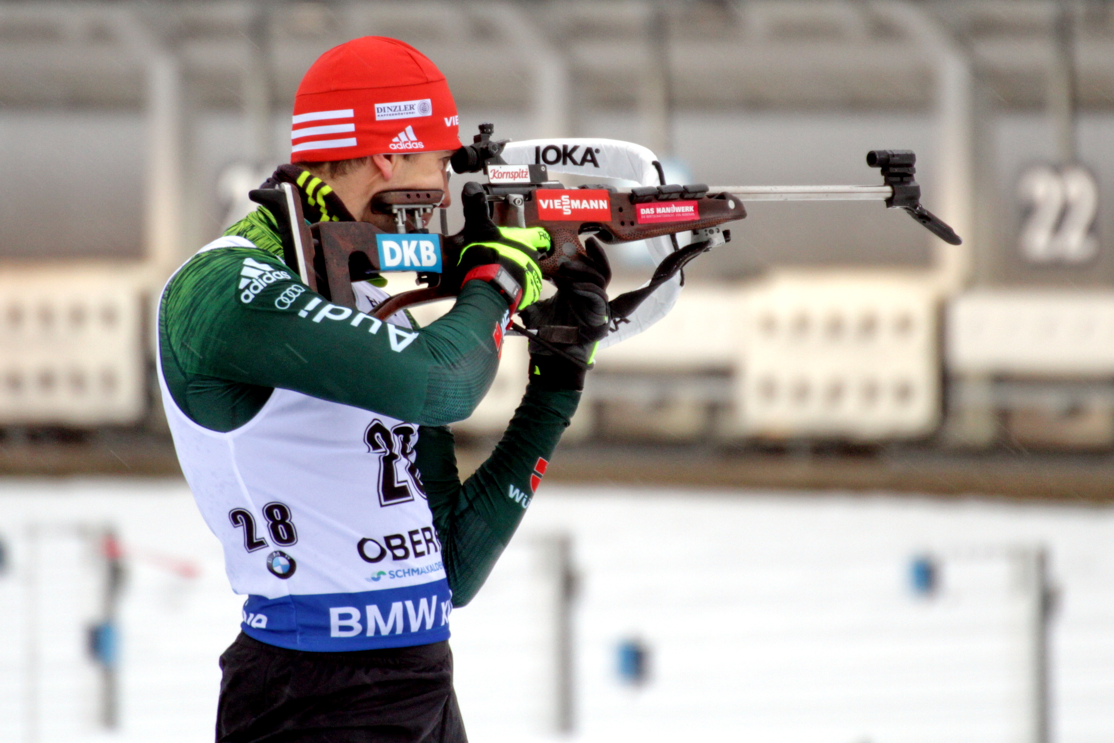 2018 Oberhof Biathlon World Cup - Sprint Men